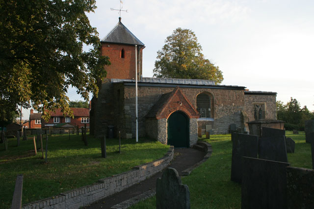 Holy Trinity Church, Tithby